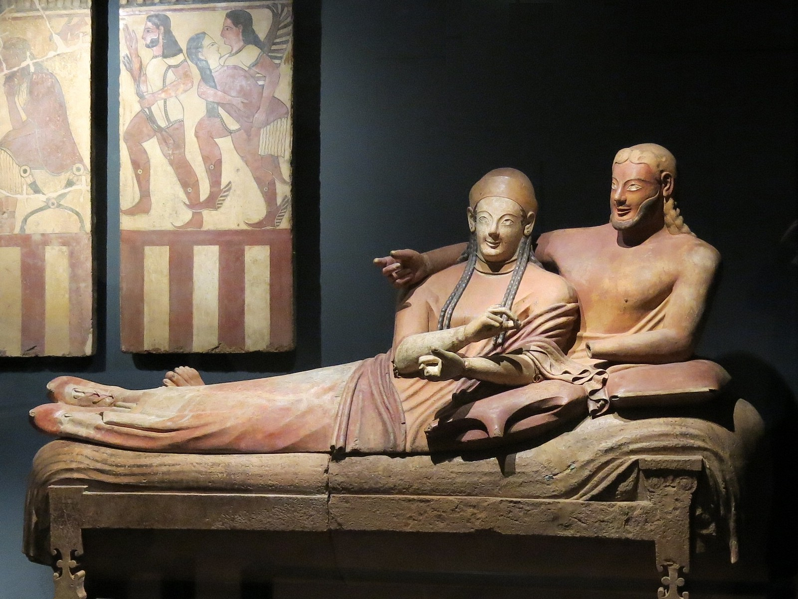 The sarcophage des Époux in the exhibition Un rêve d'Italie from the Campana collection. Louvre museum (Paris, France).